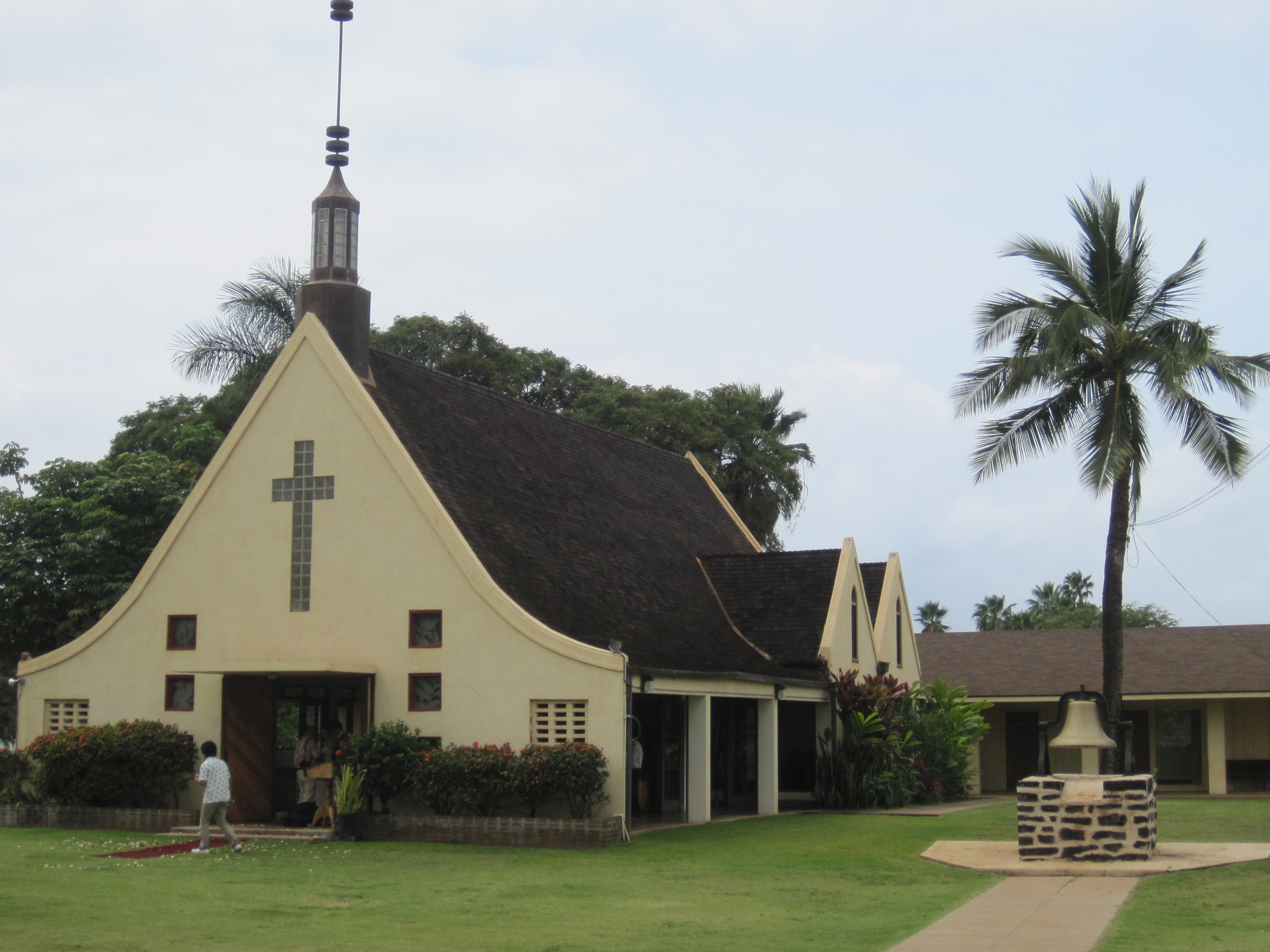 Waiola Church (formerly Waineʻe Church), Lahaina Historic District, Lahaina, Hawaii, on National Register of Historic Places